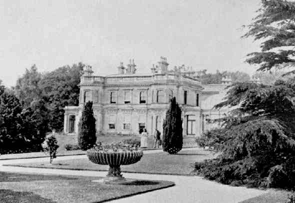 Ruddington Hall is a country house standing in the grounds of a beautiful garden in Ruddington, Nottingham.